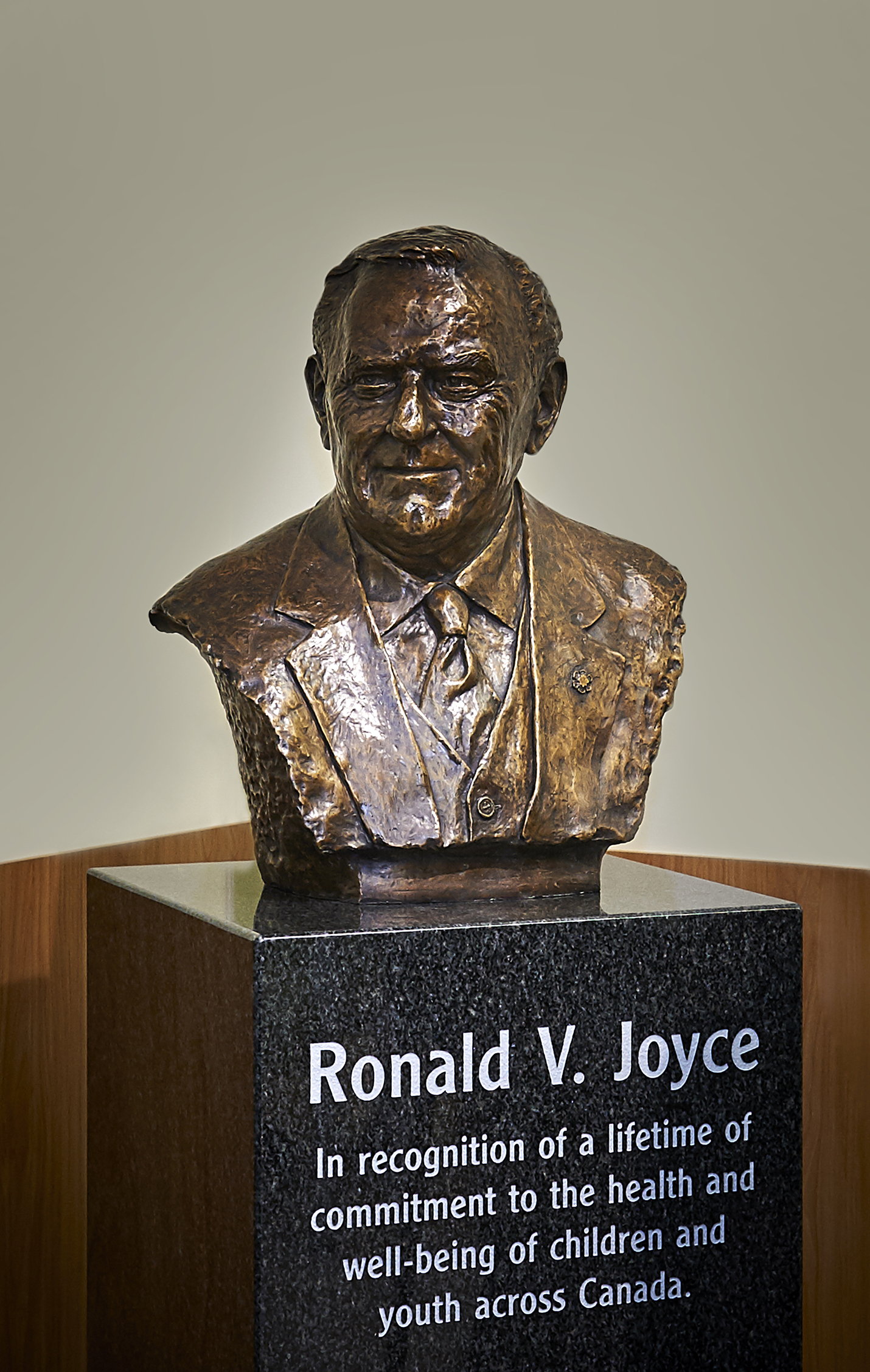 Ron Joyce Bronze Sculpture at McMaster Children's Hospital in recognition of donation to Hamilton Health Sciences, 2016